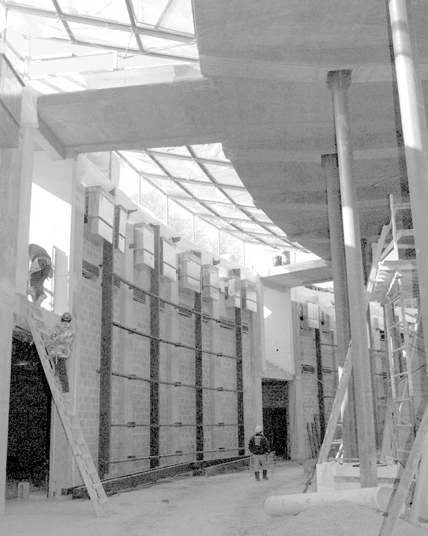 Workers construct the interior of the Women in Military Service for America Memorial on February 7, 1997. The memorial is being constructed behind the Hemicycle, the ceremonial entrance to Arlington National Cemetery in Arlington County, Virginia, in the United States.